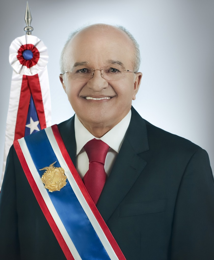 Official photo of Governor of the State of Amazonas